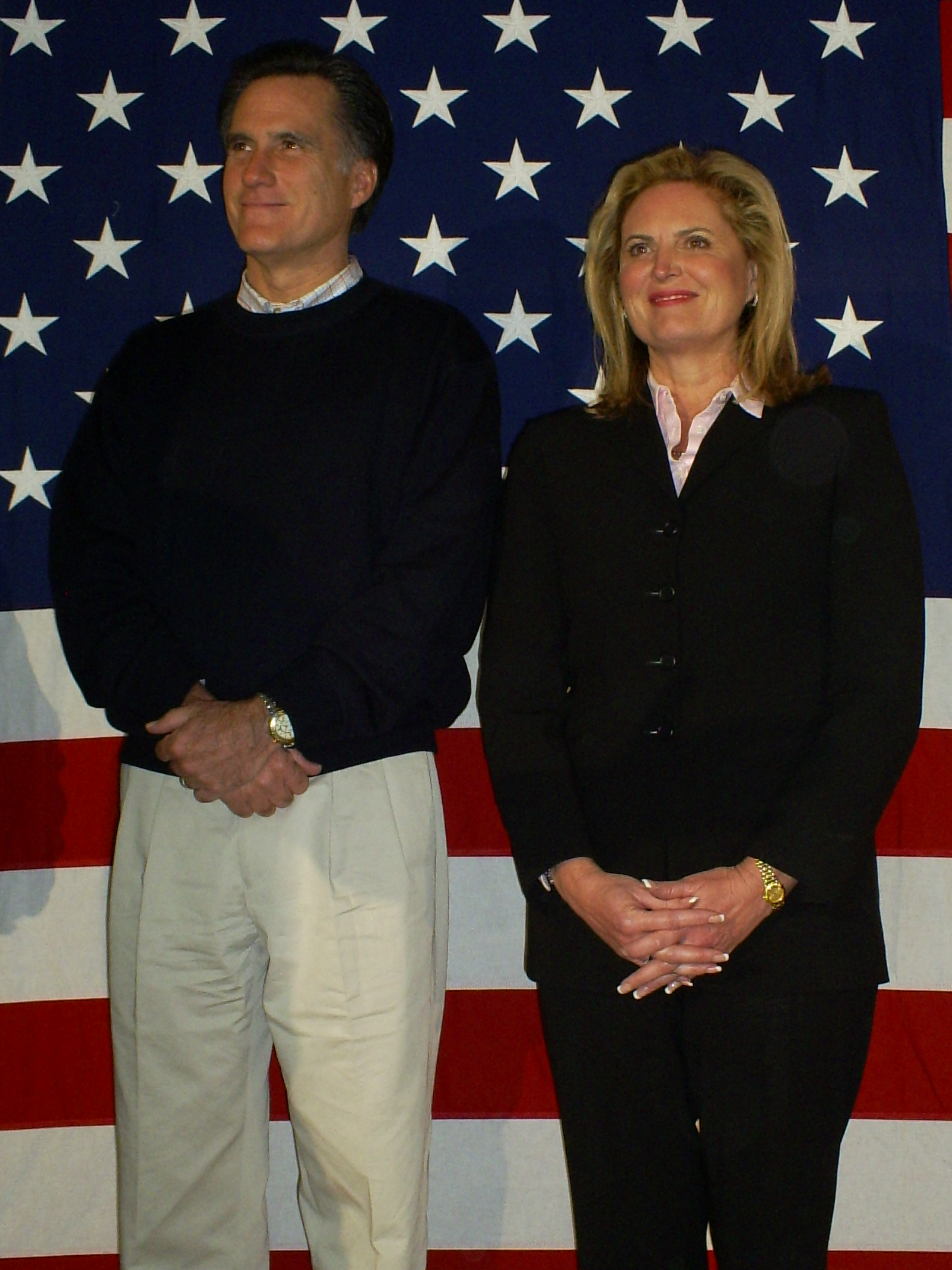 Mitt and Ann Romney at a "Ask Mitt Anything Town Hall" at the Lions Hall in Londonderry, New Hampshire, December 22, 2007, during his 2008 presidential campaign. Photo by Craig Michaud.